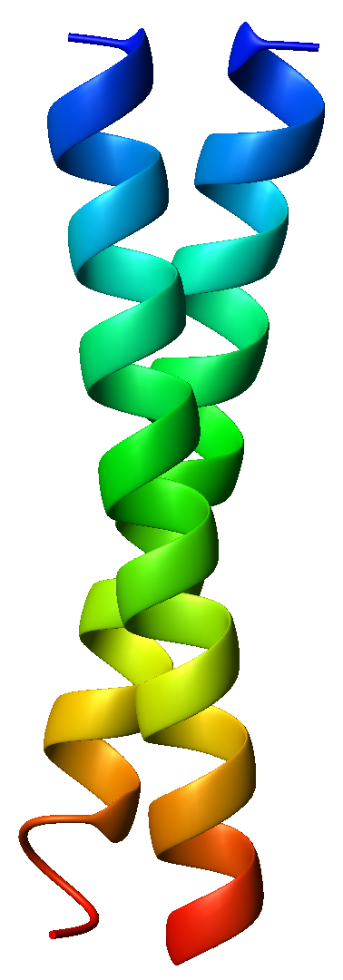 Rainbow ribbon diagram of the GCN4 leucine zipper, a parallel coiled-coil dimer (Protein Data Bank accession code 1zik). The ribbons are colored from blue (N-terminus) to red (C-terminus). This is my own work, made with MOLMOL on 8 September 2006, and licensed under the GFDL.